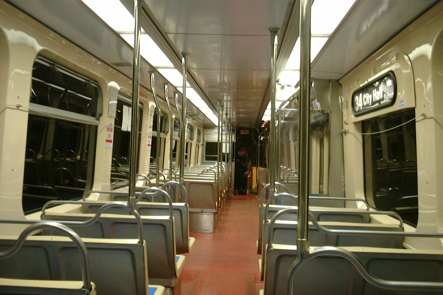 Philadelphia tram